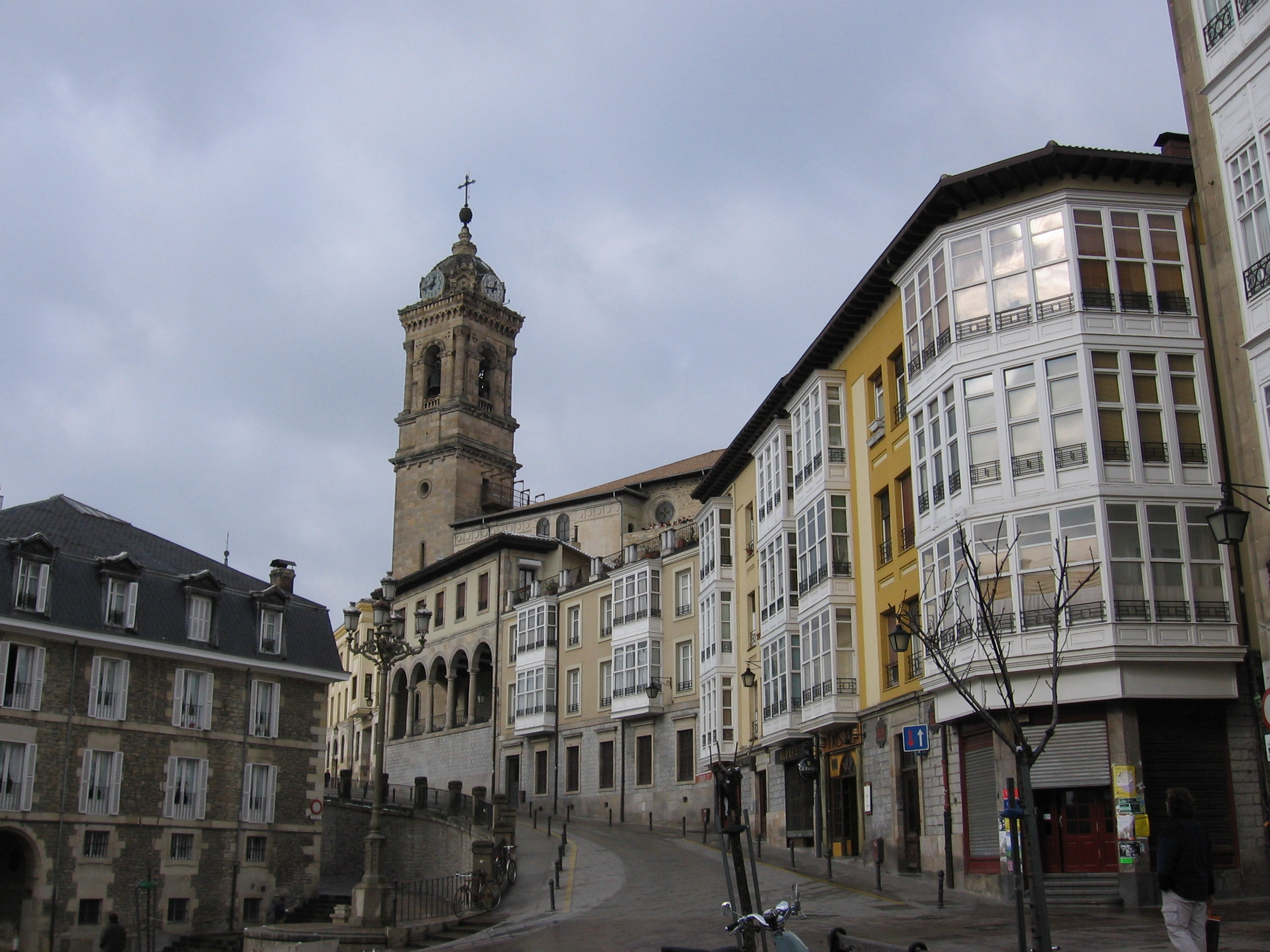 Vitoria, Spain, Old Town